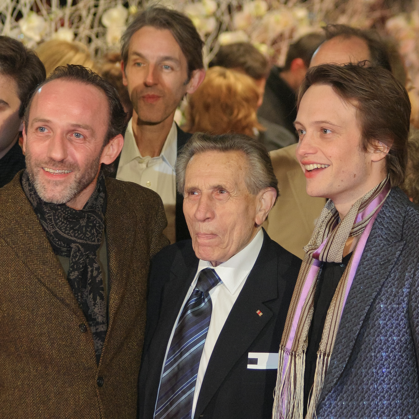 Karl Markovics, Andreas Schmidt, Adolf Burger and August Diehl at the Premier of The Counterfeiters at the Berlinale 2007